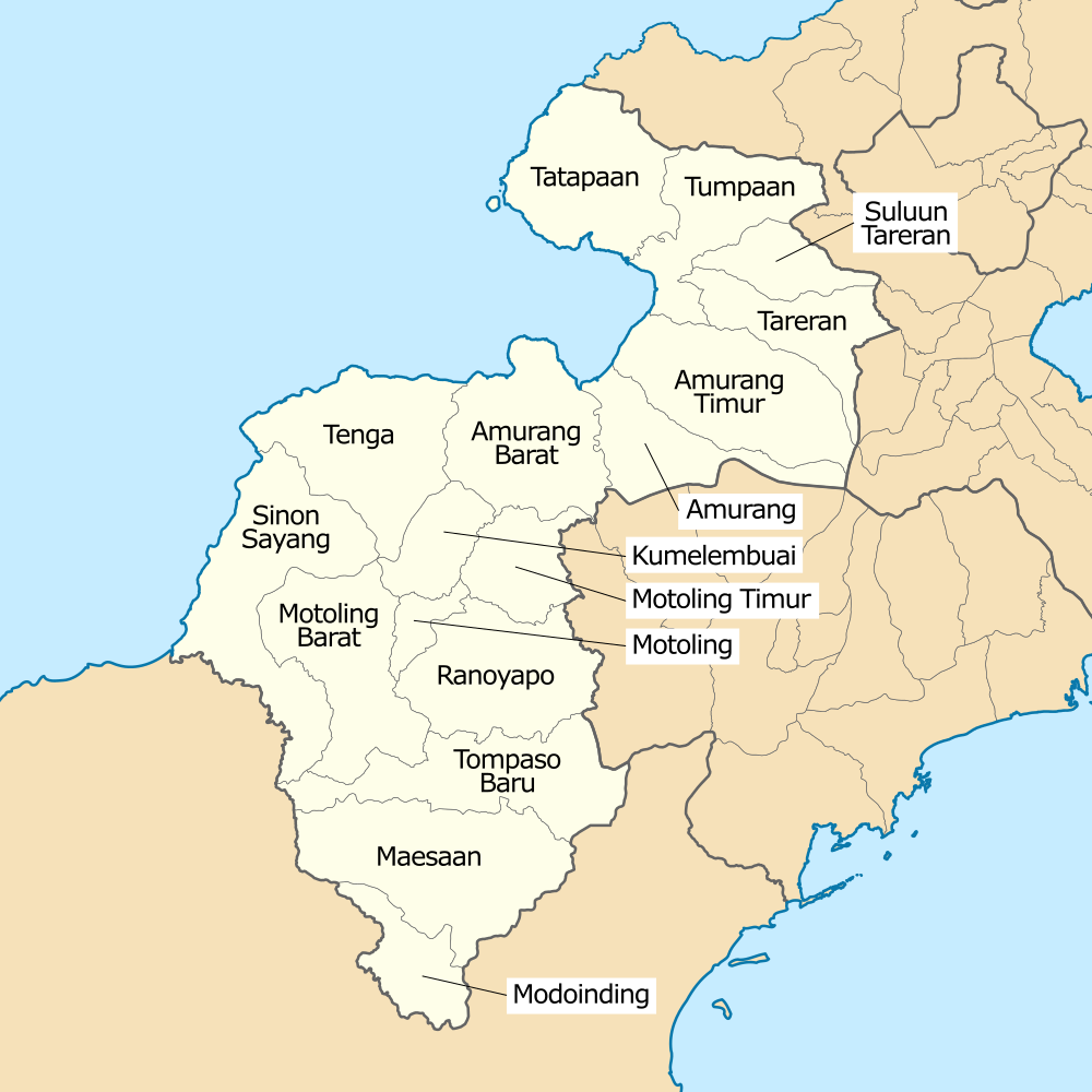 Map of sub-districts in South Minahasa Regency, North Sulawesi, Indonesia. Map data from tanahair.indonesia.go.id and kpu-sulutprov.go.id.